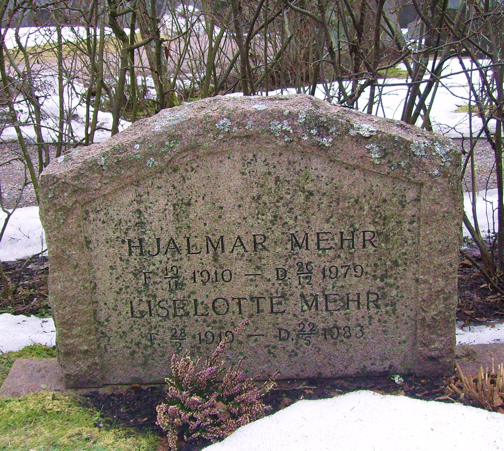 Picture of Hjalmar Mehr's grave at Judiska norra begravningsplatsen in Solna